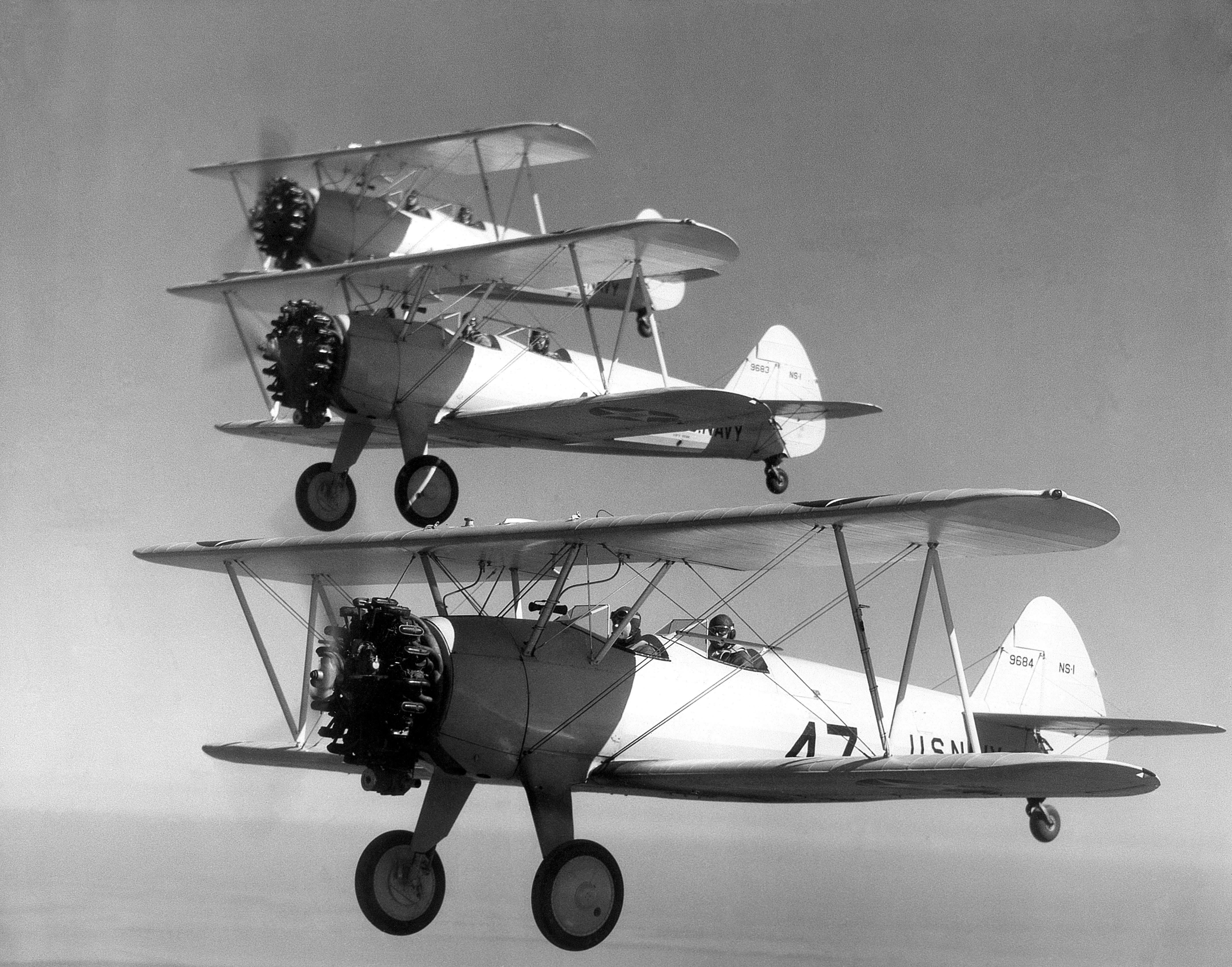 Boeing-Stearman NS-1 Bi-plane